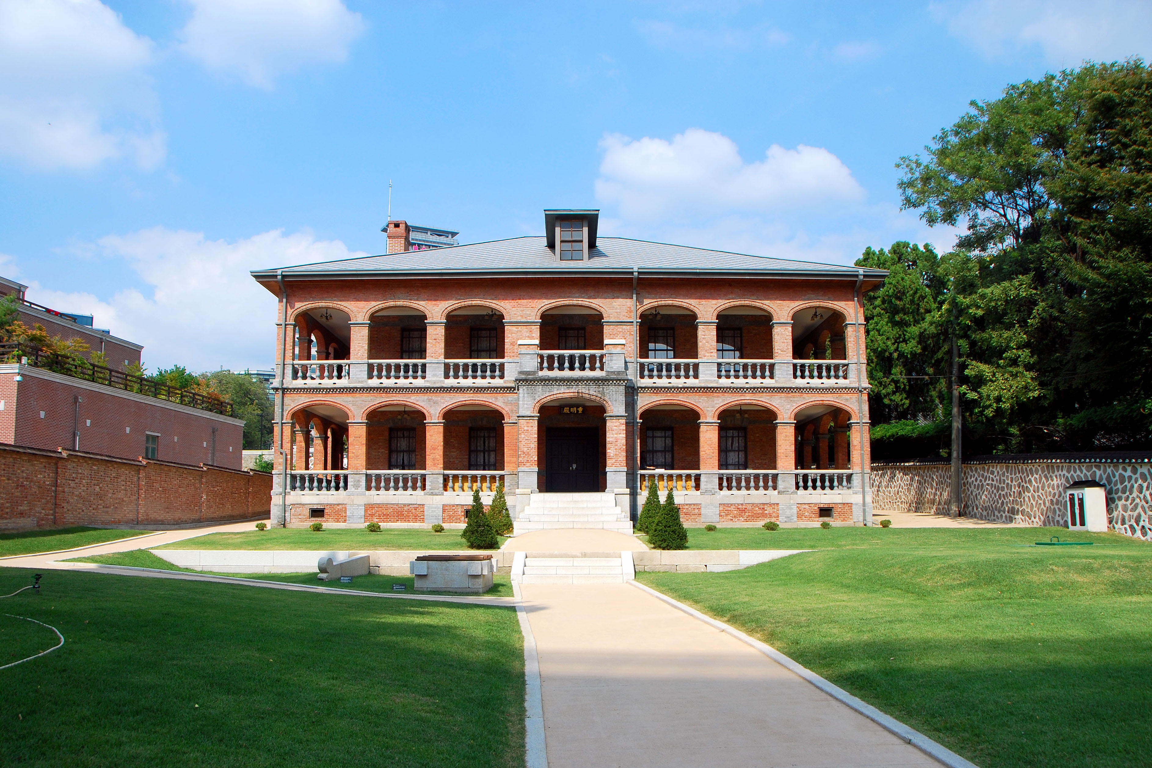 Front side of Jungmyeongjeon Hall